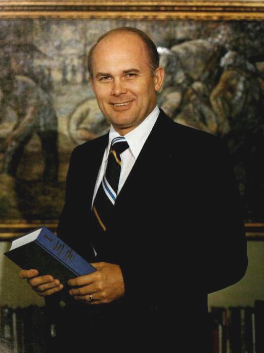 Dallin H. Oaks, while President of Brigham Young University, a member of the Quorum of the Twelve Apostles of The Church of Jesus Christ of Latter-day Saints, former professor of law at the University of Chicago Law School, and a former justice of the Utah Supreme Court.